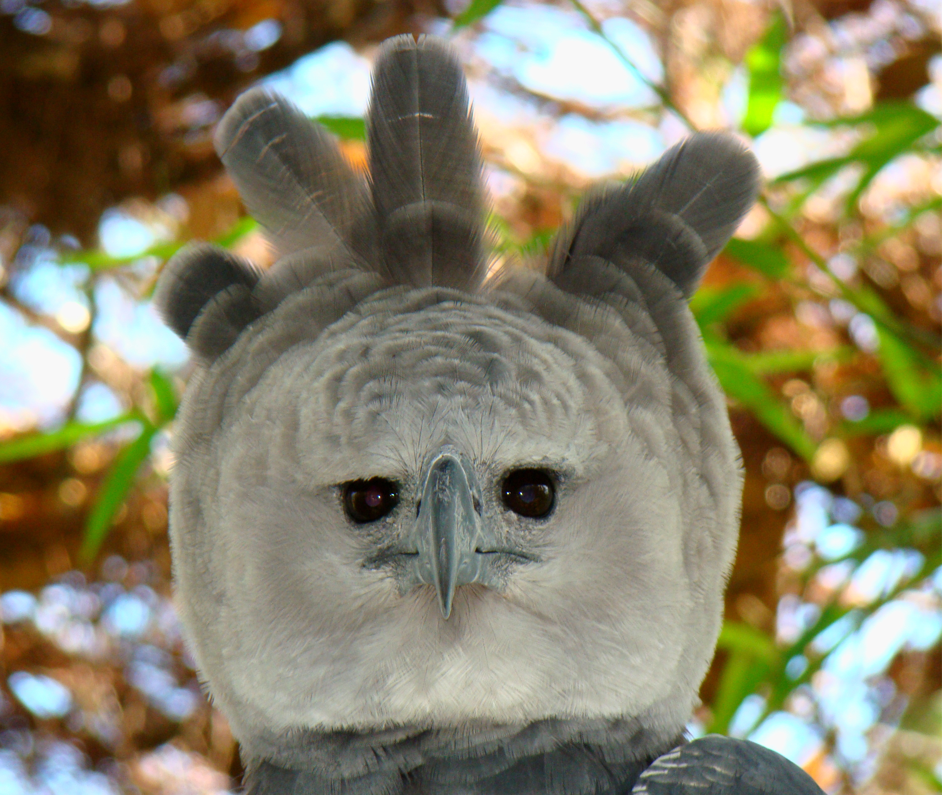 An adult female harpy eagle at the Belize Zoo, west of Belize City, Belize.